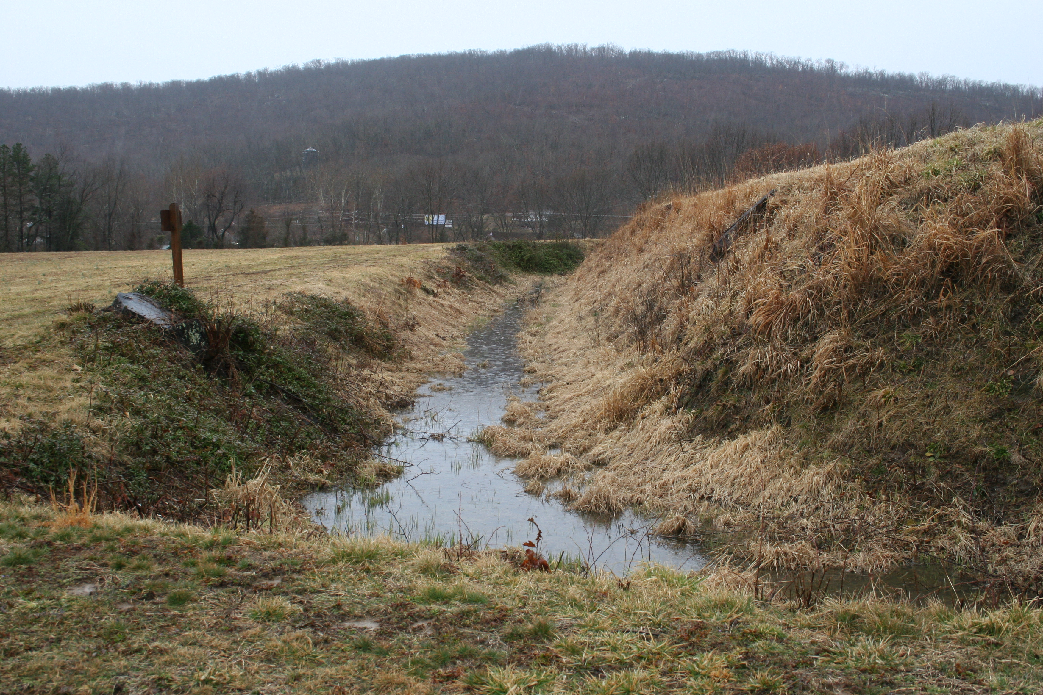 Present day image of the earthworks and the surrounding moat. At the time of the battle, the earthworks would have been higher and the moat would have been deeper.